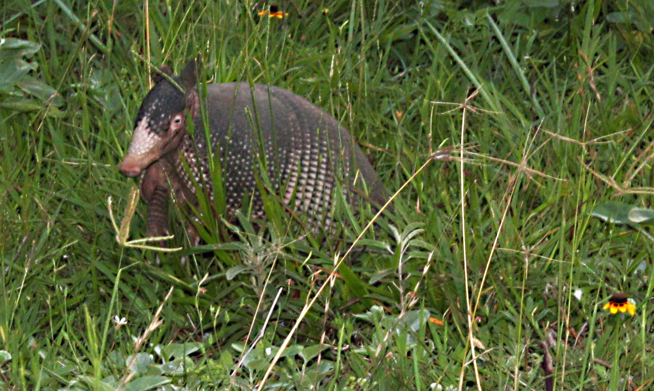 Nine-Banded armadillo photographed at the welder wildlife refuge on a trip for Biology field studies